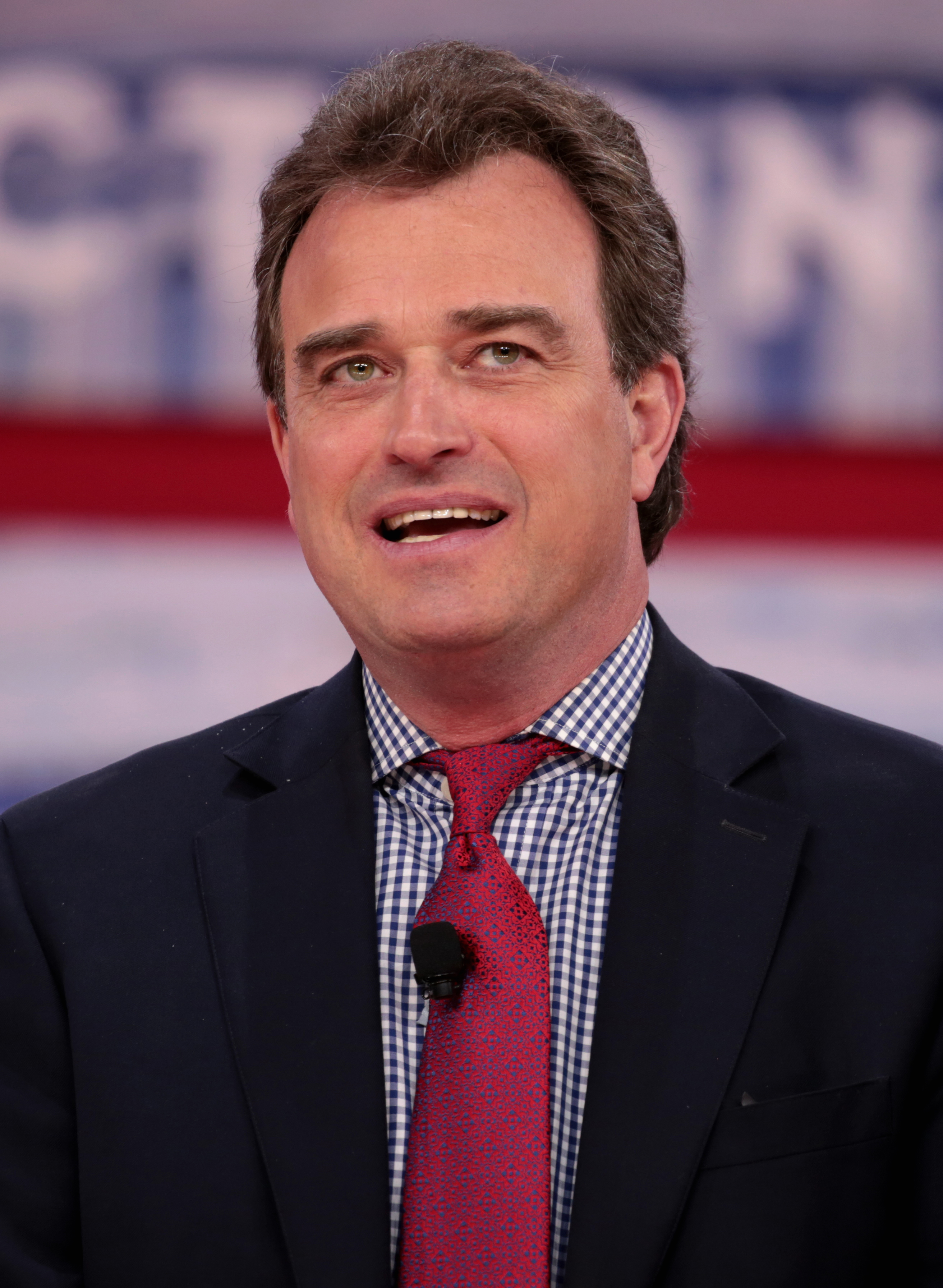 Charlie Hurt speaking at the 2018 CPAC in National Harbor, Maryland.